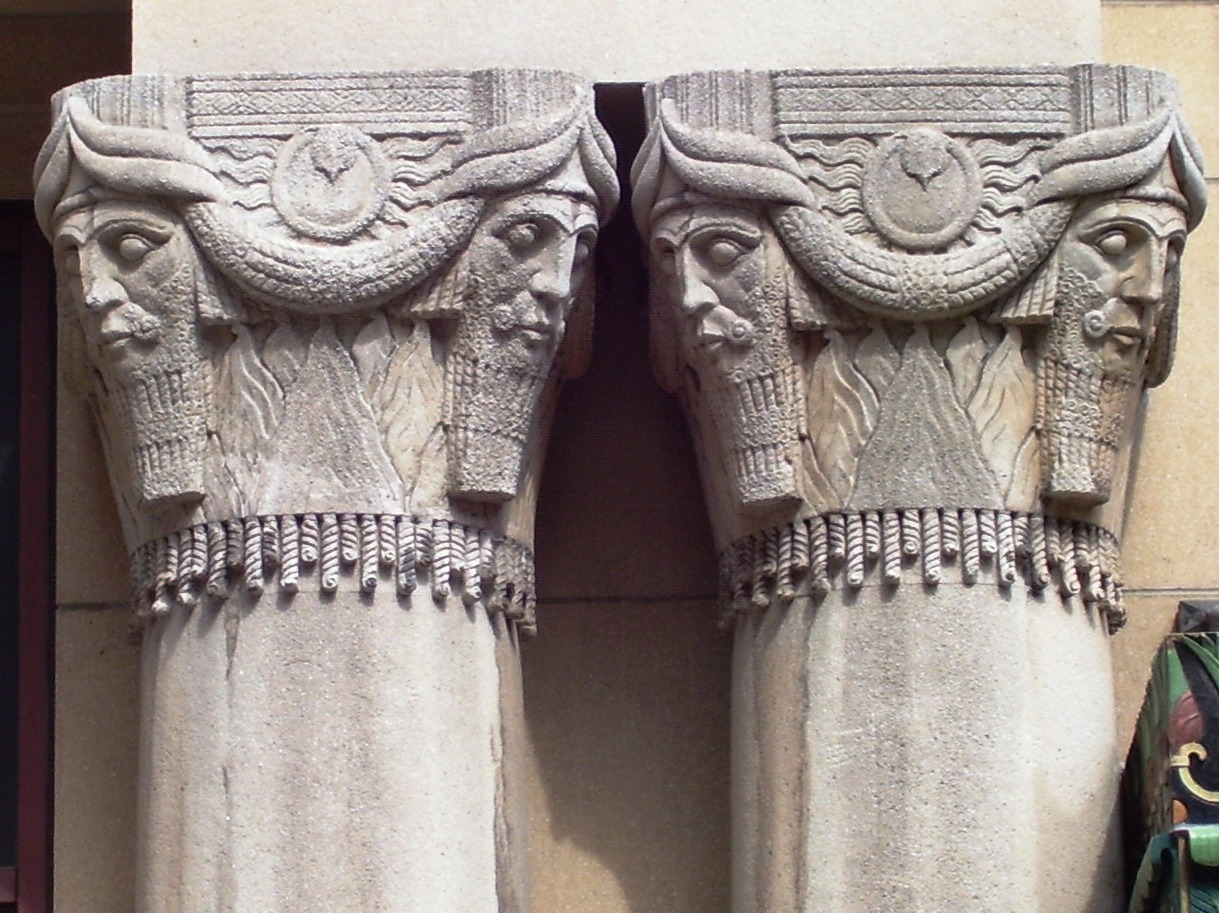 The former Pythian Temple at 135 West 70th Street between Columbus Avenue and Broadway in the Lincoln Square neighborhood of Manhattan, New York City, was built in 1927 as a clubhouse for the Knights of Pythias. It was designed by Thomas W. Lamb in Egyptian Revival Art Deco style. In 1986, David Gura renovated it to become a condominium apartment building, The Pythian. (Source: AIA Guide to NYC (4th ed.))